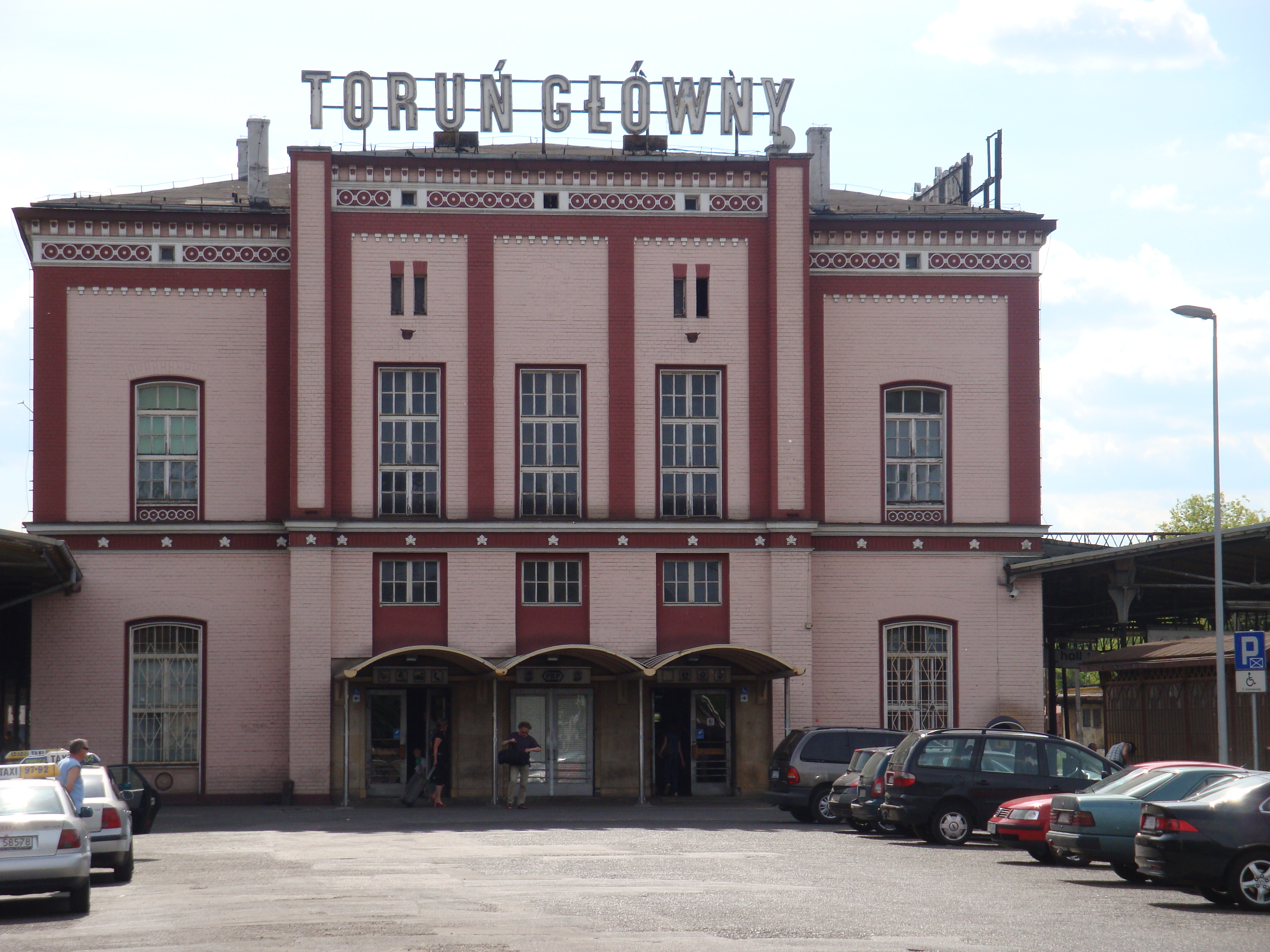 Toruń Główny railway station